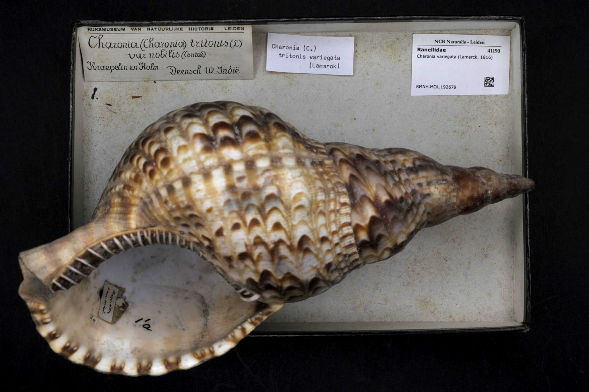 Charonia variegataCharonia variegata (Lamarck, 1816)